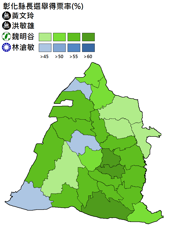 Changhua 2014